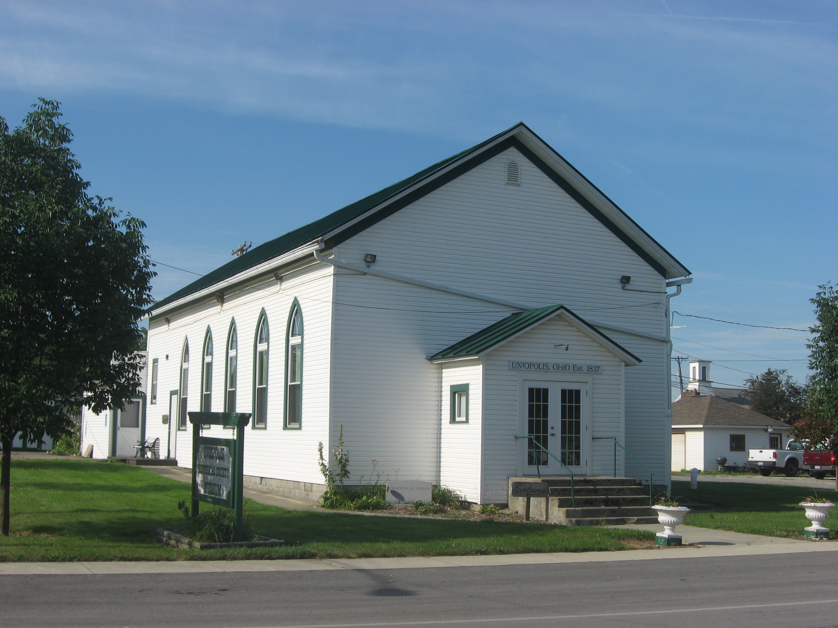 Front and eastern side of the Uniopolis Town Hall, located along Ohio Street (State Route 67) at its intersection with Mill Street in Uniopolis, Ohio, United States. Once a congregation of the Church of the United Brethren in Christ, it now serves as the location of the municipal offices and of the Uniopolis Historical Society Museum, and is listed on the National Register of Historic Places.